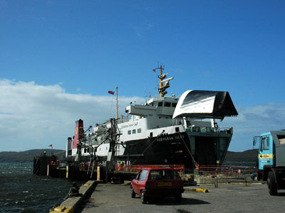 MV Hebridean Isles at Port Ellen pier.